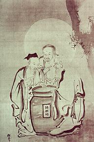 The traditional Asian allegorical image "The Vinegar Tasters". Source = 配图古诗精选, ca. 1880, p. 27, author unknown - traditional.